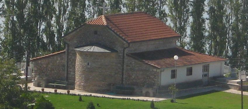 St. Elijah Church in Elšani, Macedonia